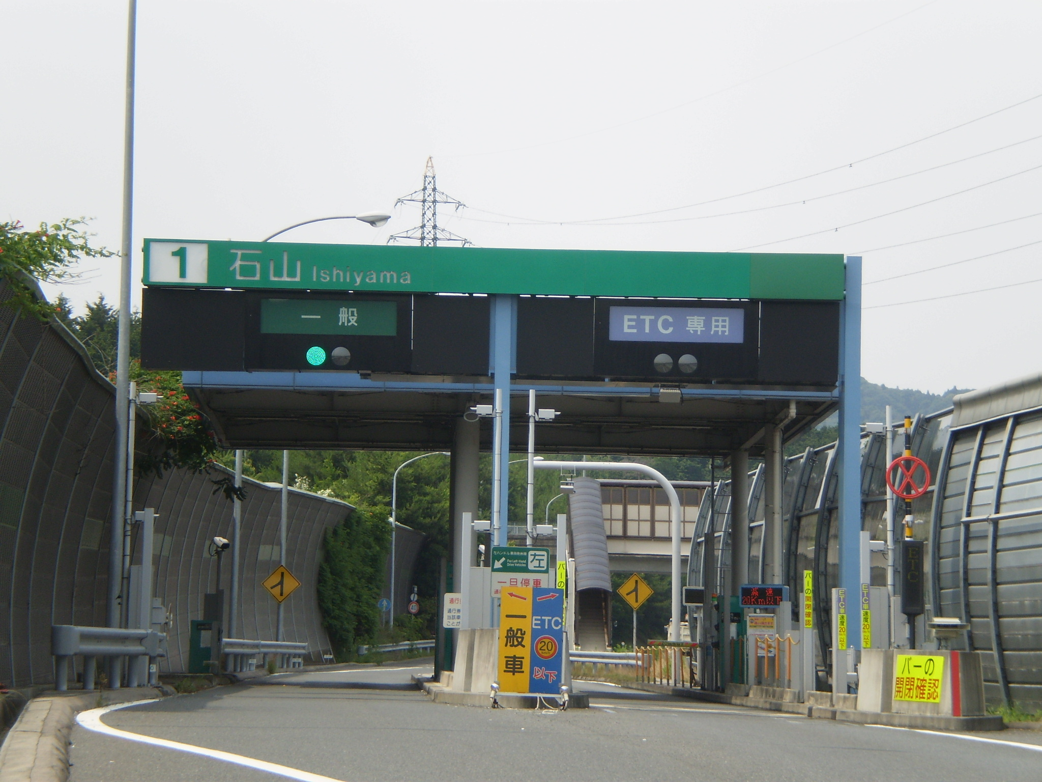 Ishiyama interchange of Keiji Bypass. I took this image at Ishiyamadera-5chome Otsu City Shiga Pref., Japan.